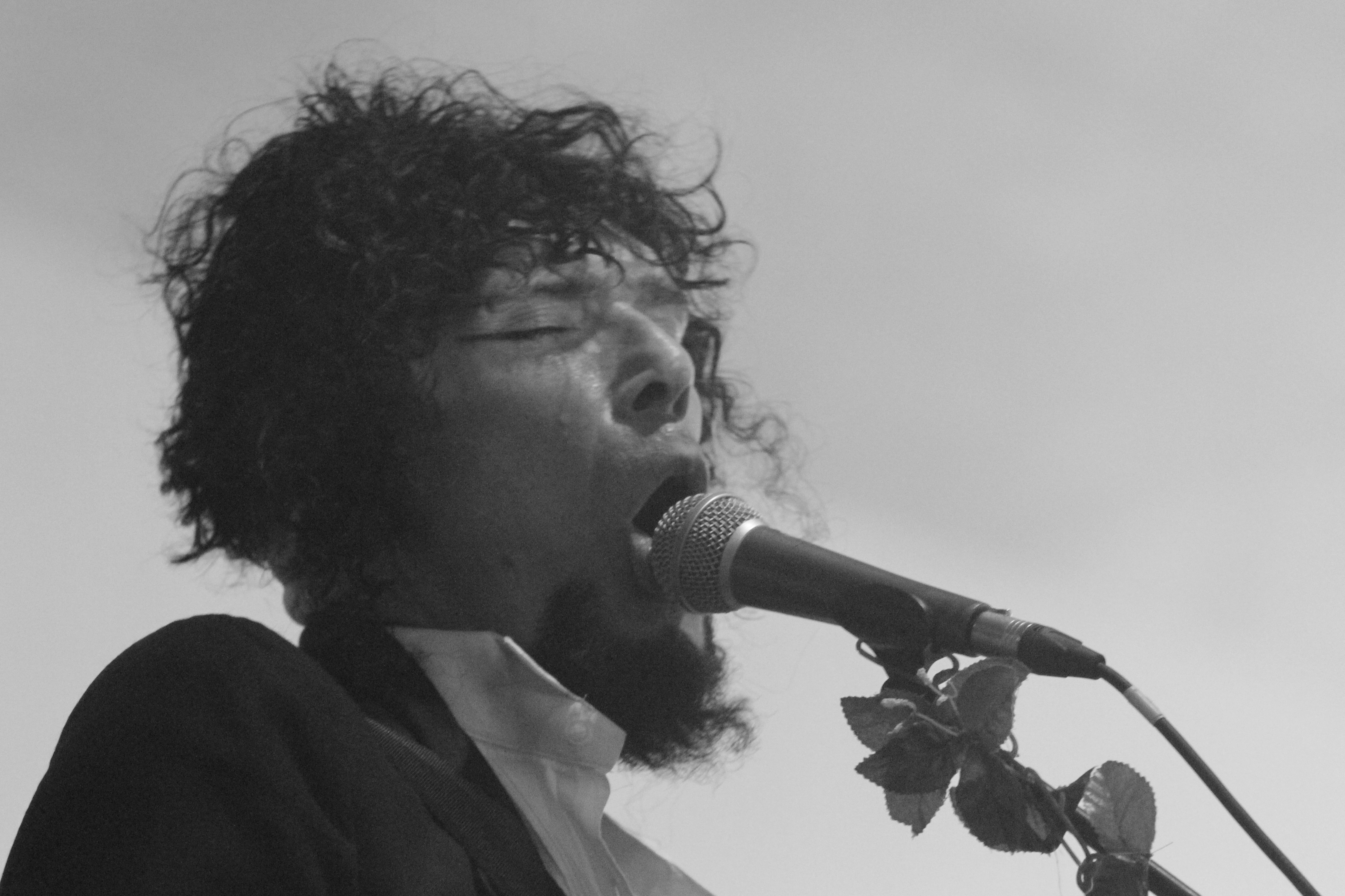 Christian Death at the Wave-Gotik-Treffen 2014.